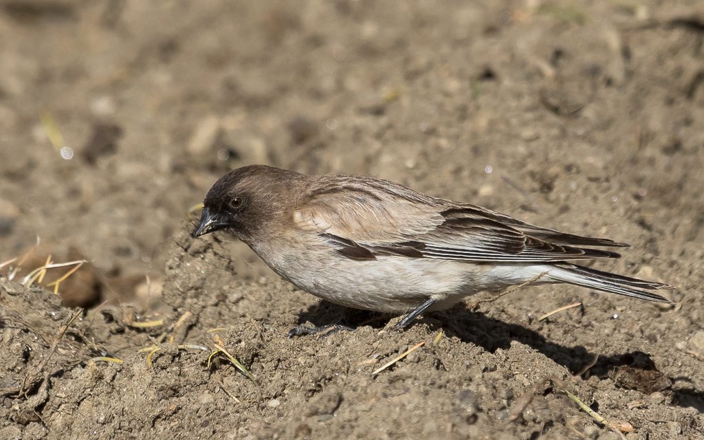 Photographed at Tso Moriri, Ladakh, Jammu & Kashmir, India, while on a Bird watching and photography trip in June this year.